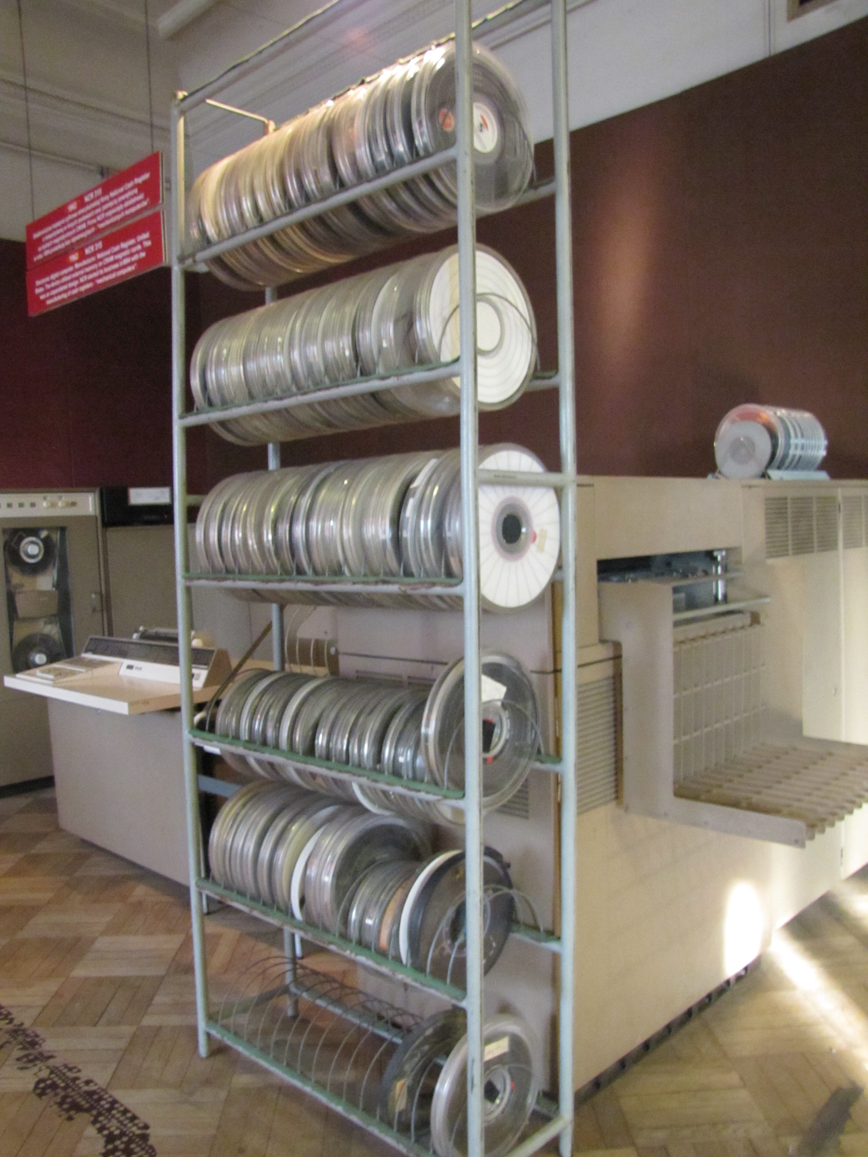 Photo taken in Warsaw Museum of Technology.